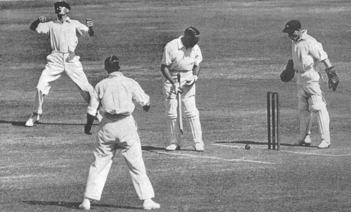 Australia's fielders watch as a ball from Bill O'Reilly hits the stumps but does not disturb the bails and Herbert Sutcliffe is not out. Sydney Test, December 1932.